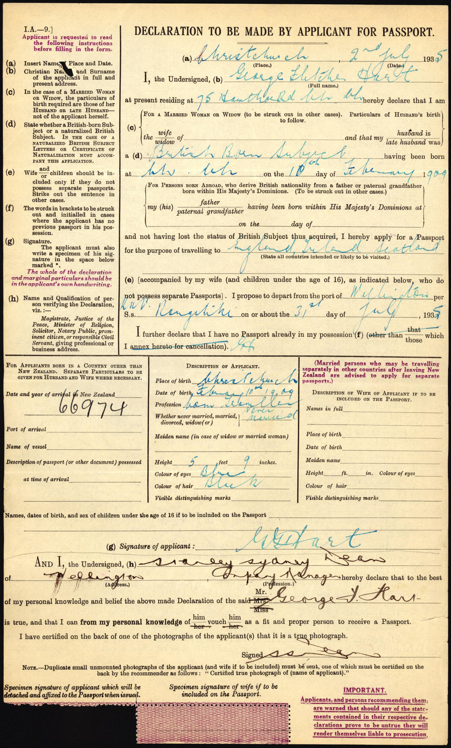 Archives New Zealand Reference: ACGO 8333 IA1 1350 / 15/11/59182